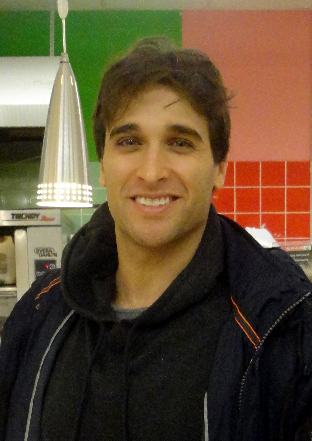 Ryan Vesce, ice-hockey player from USA.